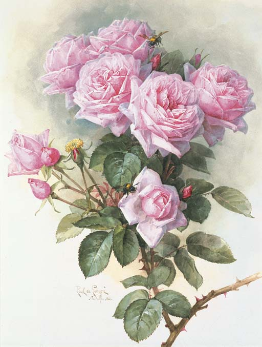 Painting of roses and a bumblebee by Paul de Longpré (1855–1911)